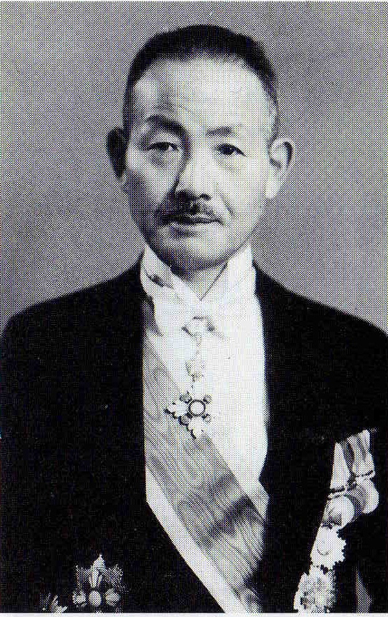 Koumoto Daisaku